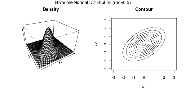 Density and contour plot of a Bivariate Gaussian Distribution. The density of the join distribution is obtained by joining a Gaussian Copula (rho=0.5) with two identical Gaussian univariate distributions (mean=0, sd=1).